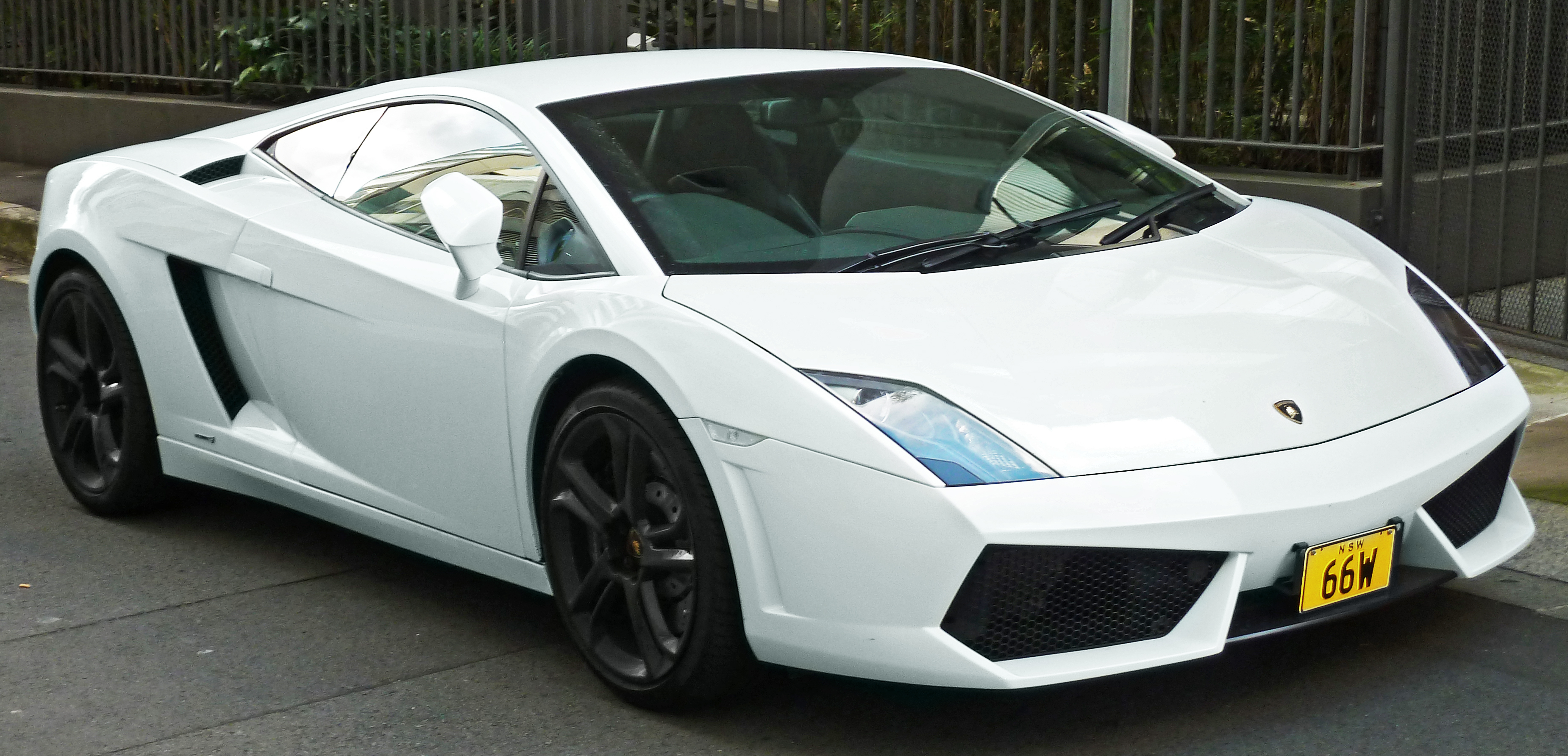 2010–2011 Lamborghini Gallardo (L140) LP 550-2 coupe. Photographed in Millers Point, New South Wales, Australia.